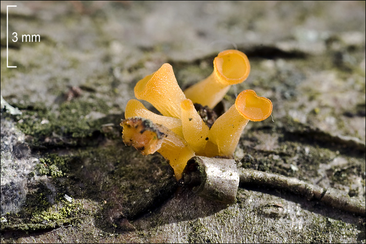 The fungus Guepiniopsis buccina. Photographed in Bovec basin, East Julian Alps, Posočje, Slovenia. See Mushroom Observer page for more extensive collection notes.